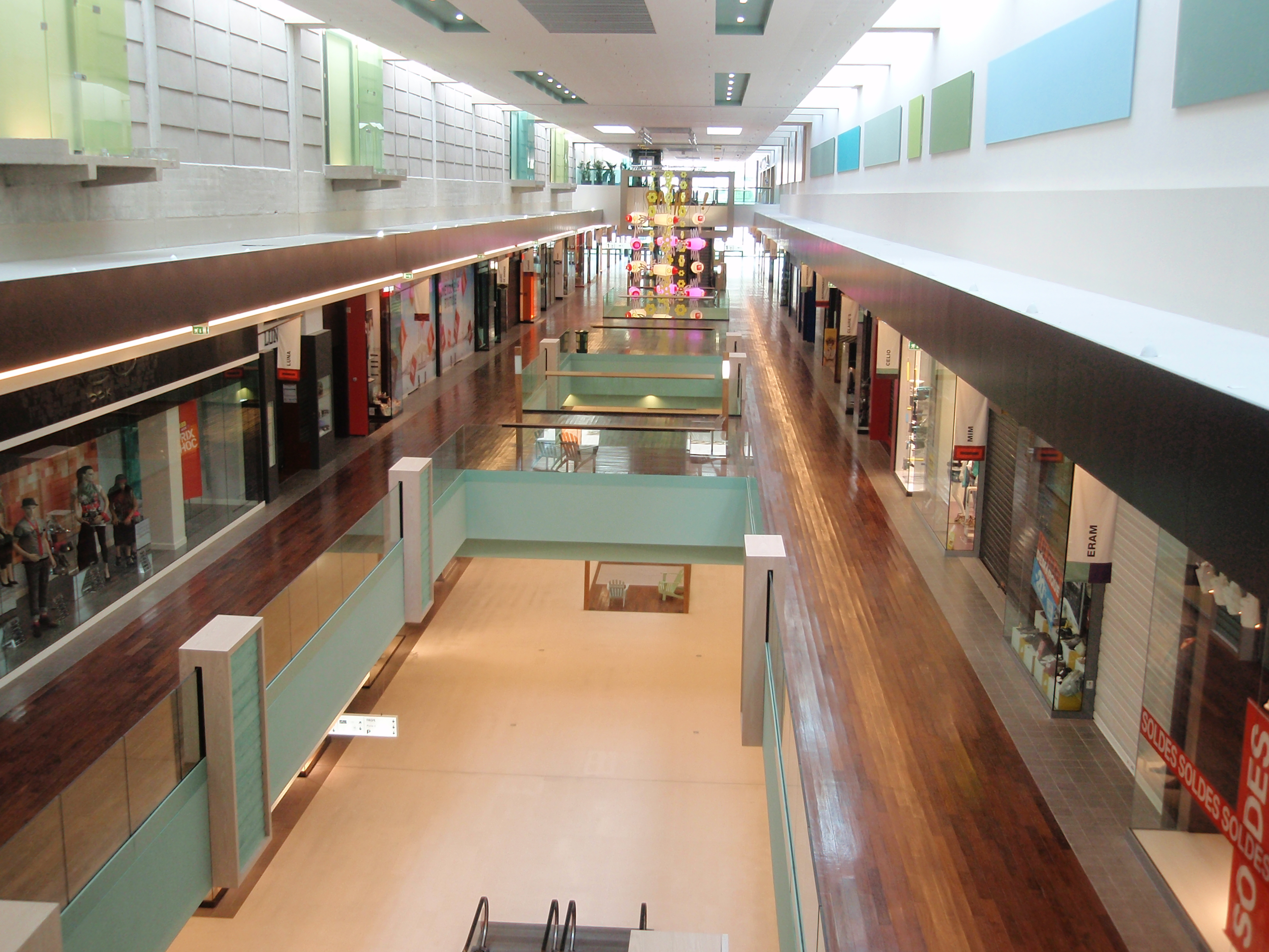 Shopping mall "Docks 76", Rouen, France on a Sunday morning.